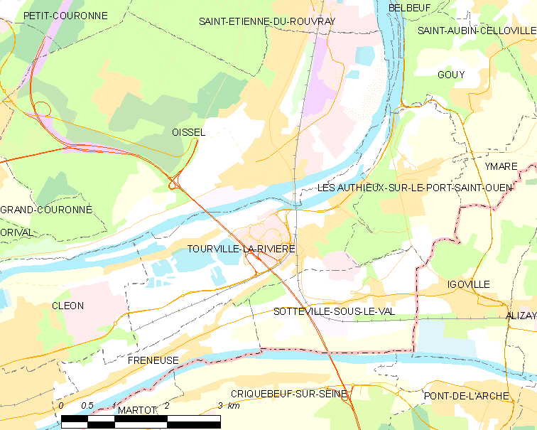 Map of French municipality Tourville-la-Rivière